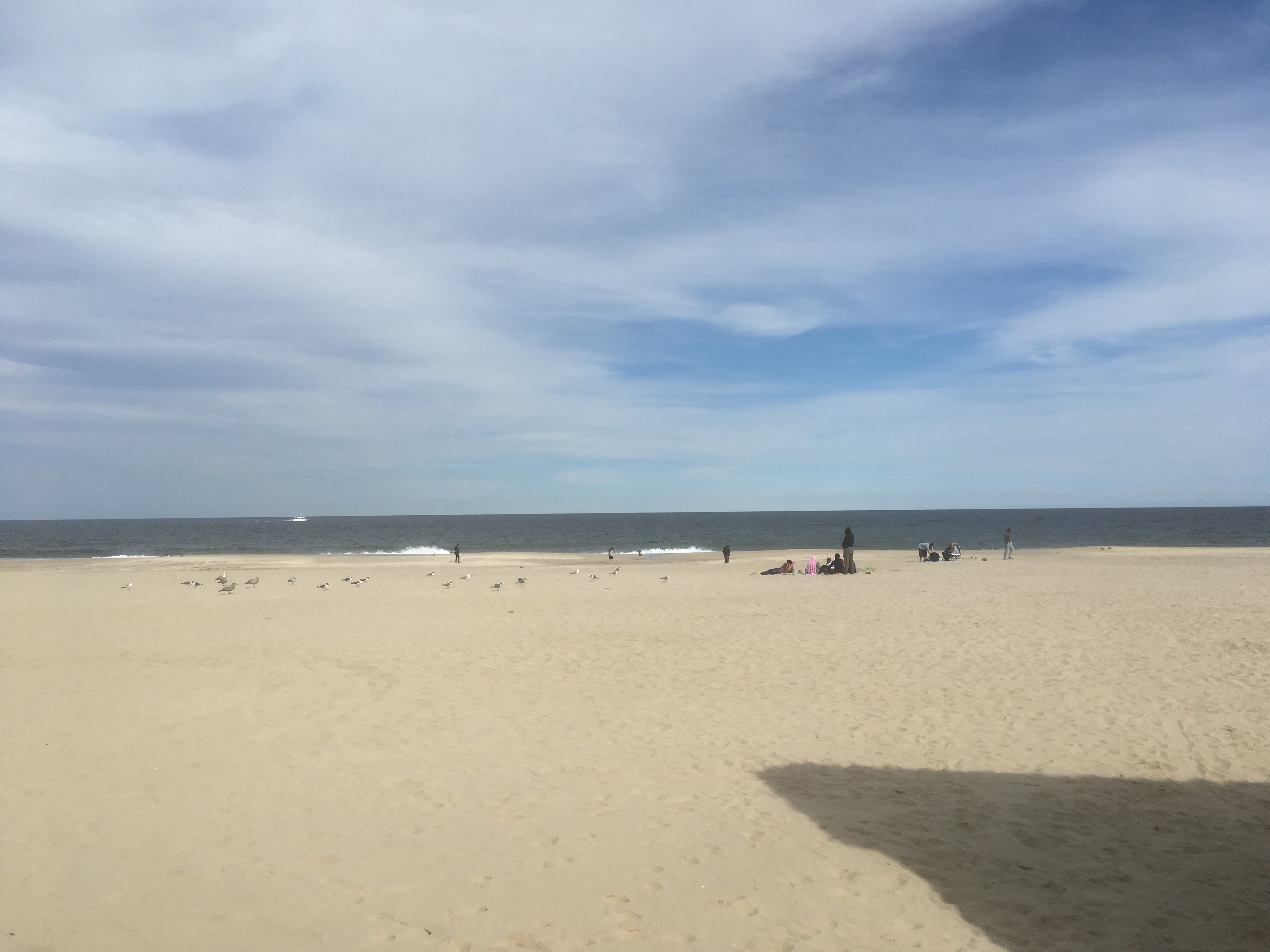 A view of the beach in Point Pleasant Beach, New Jersey north of Jenkinson's Aquarium